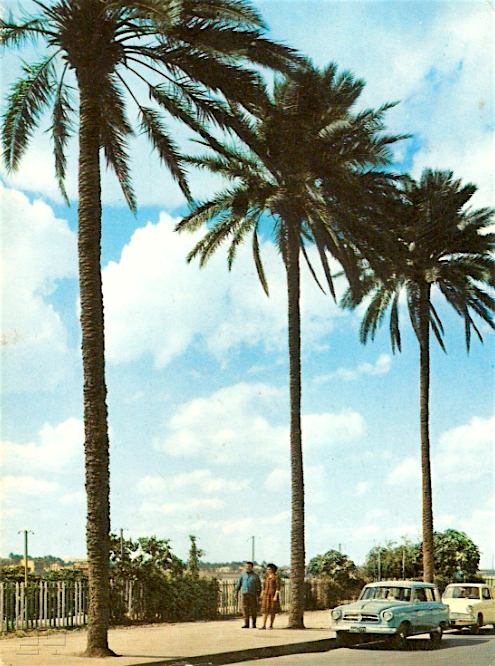 Corniche of Abu Nuwas Street, Baghdad, 1960s